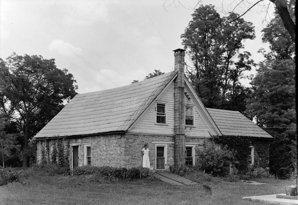 Picture of the Westbrook-Bell House (southeast elevation) built by Johannes Westbrook, c. 1701/1730 (sources vary) in the Minisink, located along Old Rine Road in Sandyston Township, NJ in Delaware Water Gap National Recreation Area. Oldest house still standing in Sussex County, New Jersey. Picture taken 13 July 1937, Library of Congress collection, from Nathaniel R. Ewan, Photographer Historical American Buildings Survey. Sussex County NJ Historical Marker